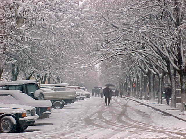 Winter in Peshkopia